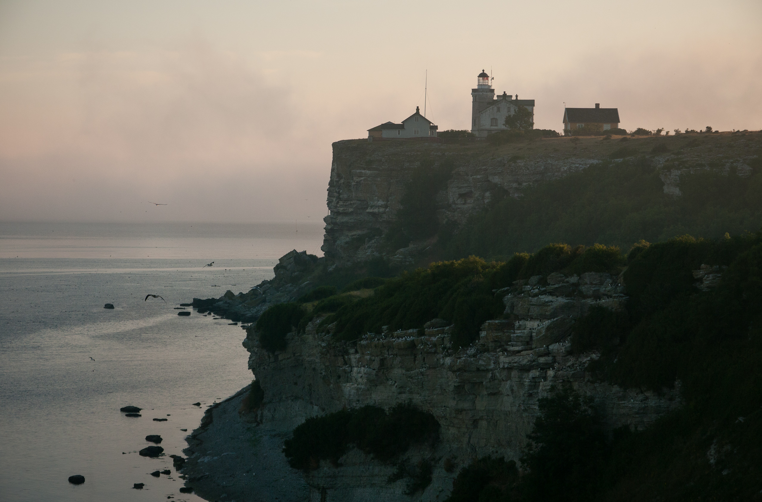 Stora Karlsö lighthouse area